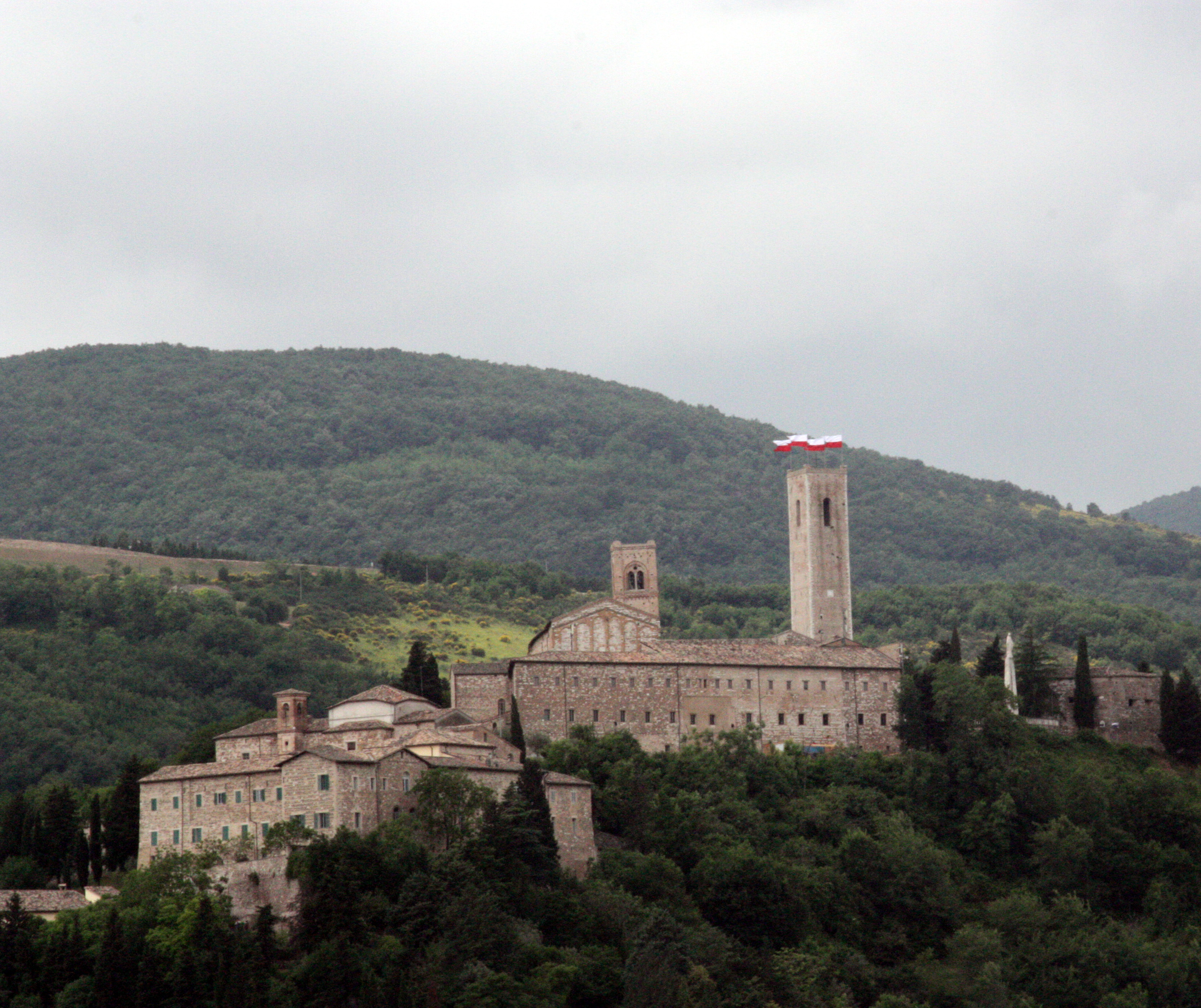 Castle on Monte Nero, in San Severino